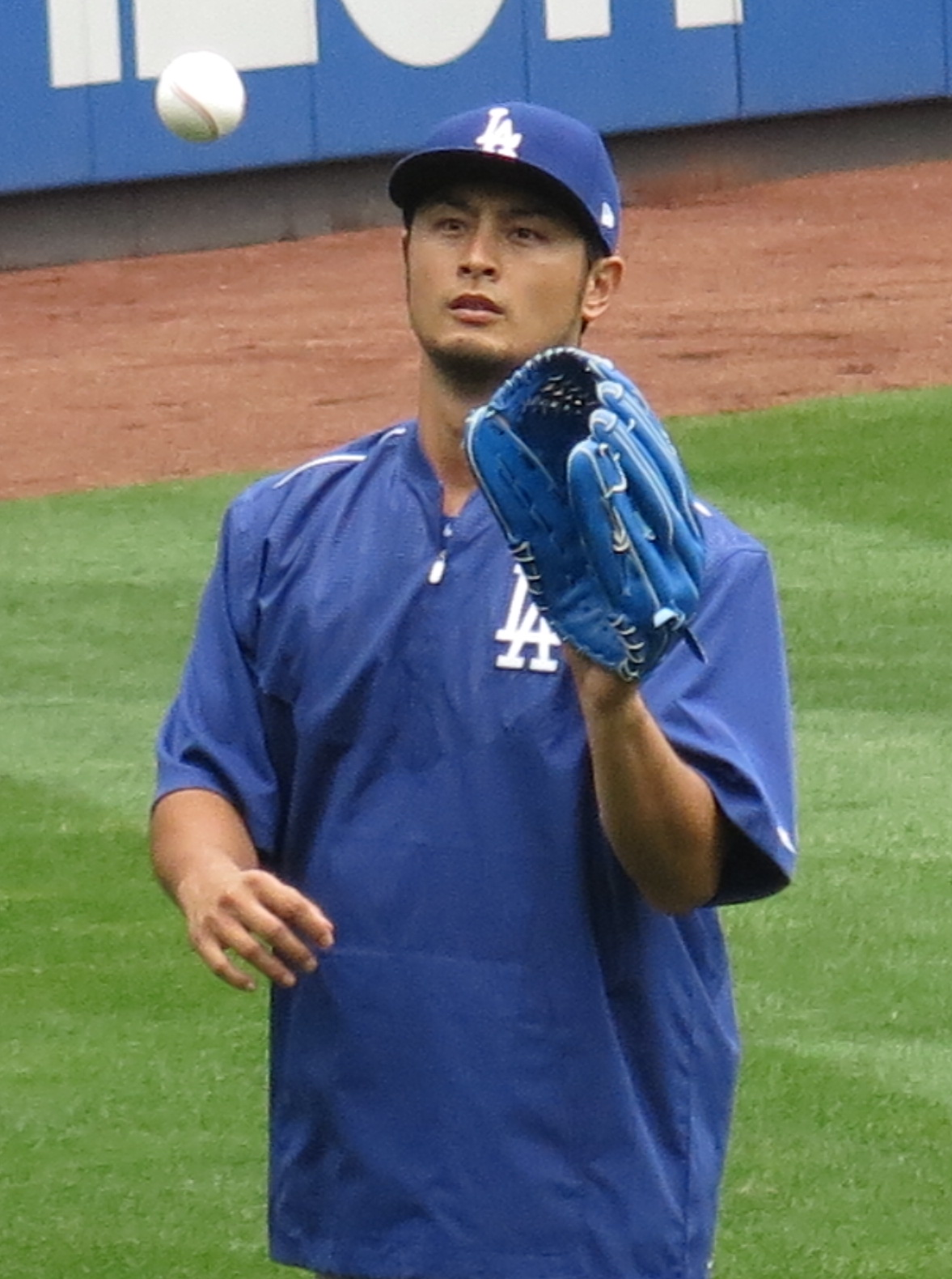 Yu Darvish on August 5, 2017.